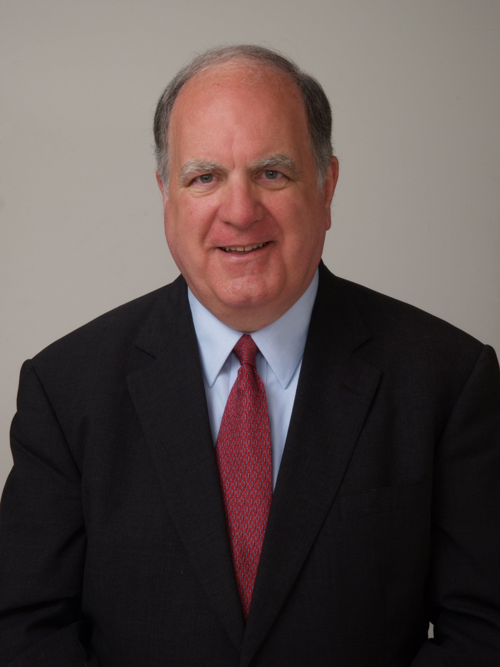 John Spratt, member of the United States House of Representatives.